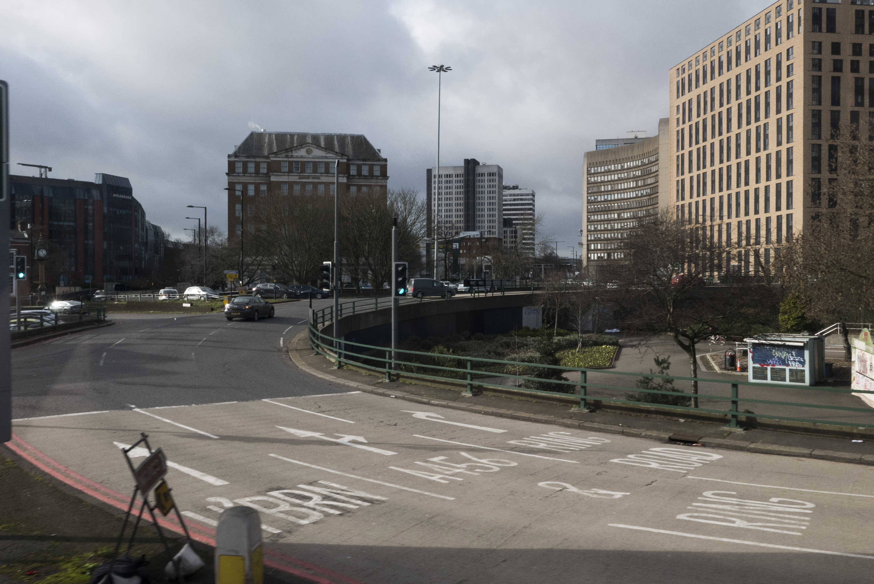 The Five Ways Island is major road junction to the south-west of the city centre which connects major routes such as the Hagley Road (A456), Broad St, Harborne Road and Birmingham ring road.